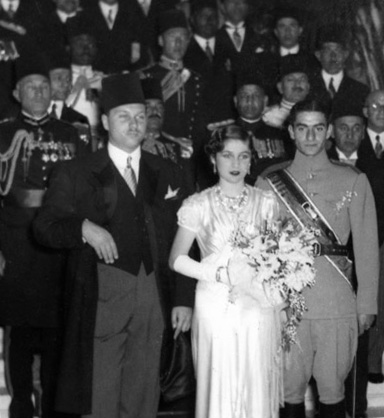 Photograph of the wedding ceremony of Mohammad Reza Pahlavi (then Crown Prince of Iran) and Princess Fawzia of Egypt at Abdeen Palace in Cairo.From left to right: King Farouk of Egypt (the bride's brother), Princess Fawzia (the bride) and the Crown Prince of Iran (the groom).